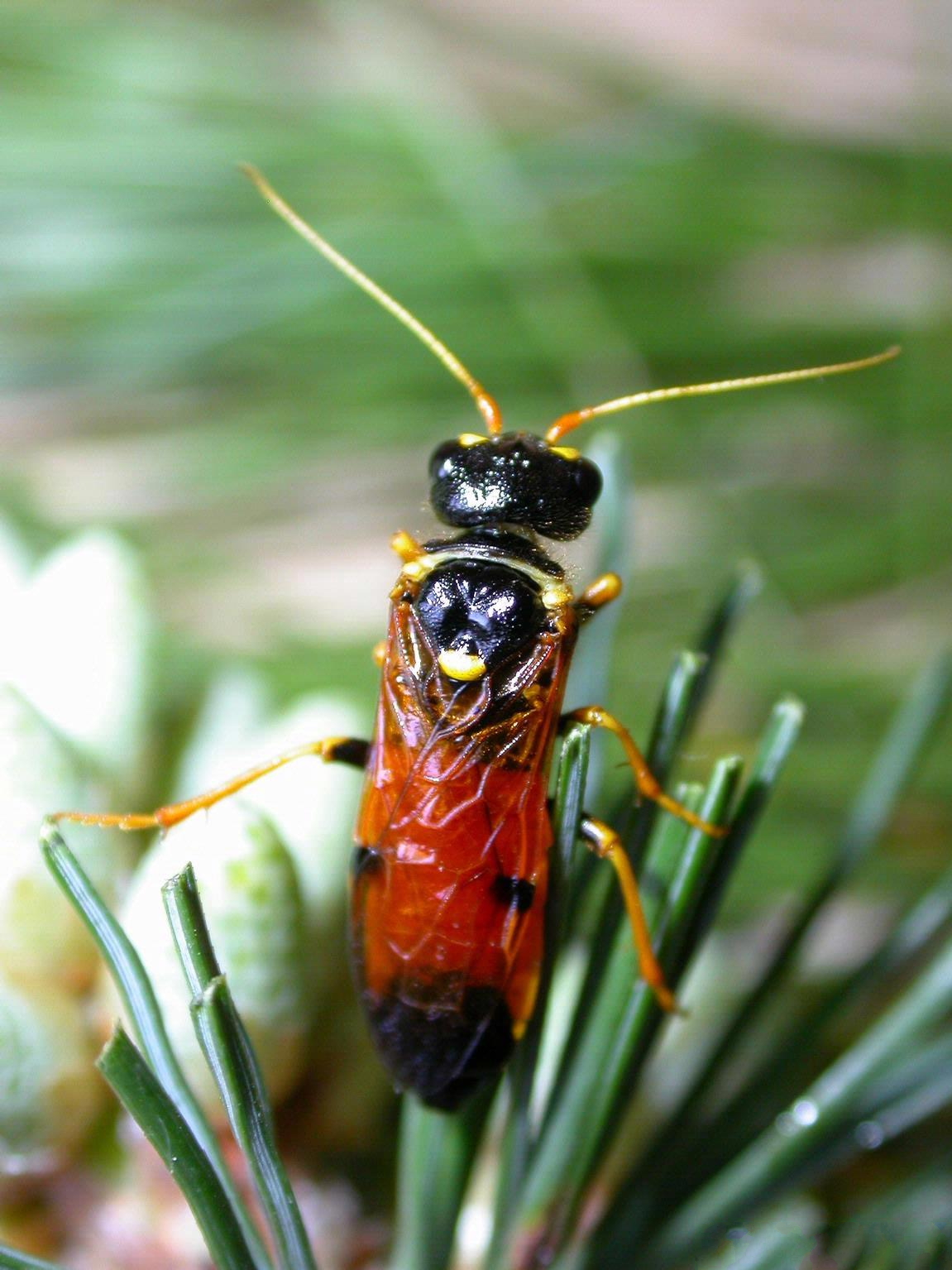 Acantholyda hieroglyphica Common Name: web-spinning pine-sawfly Photographer: Fabio Stergulc, Università di Udine, Italy Descriptor: Adult(s) Image taken in: Italy